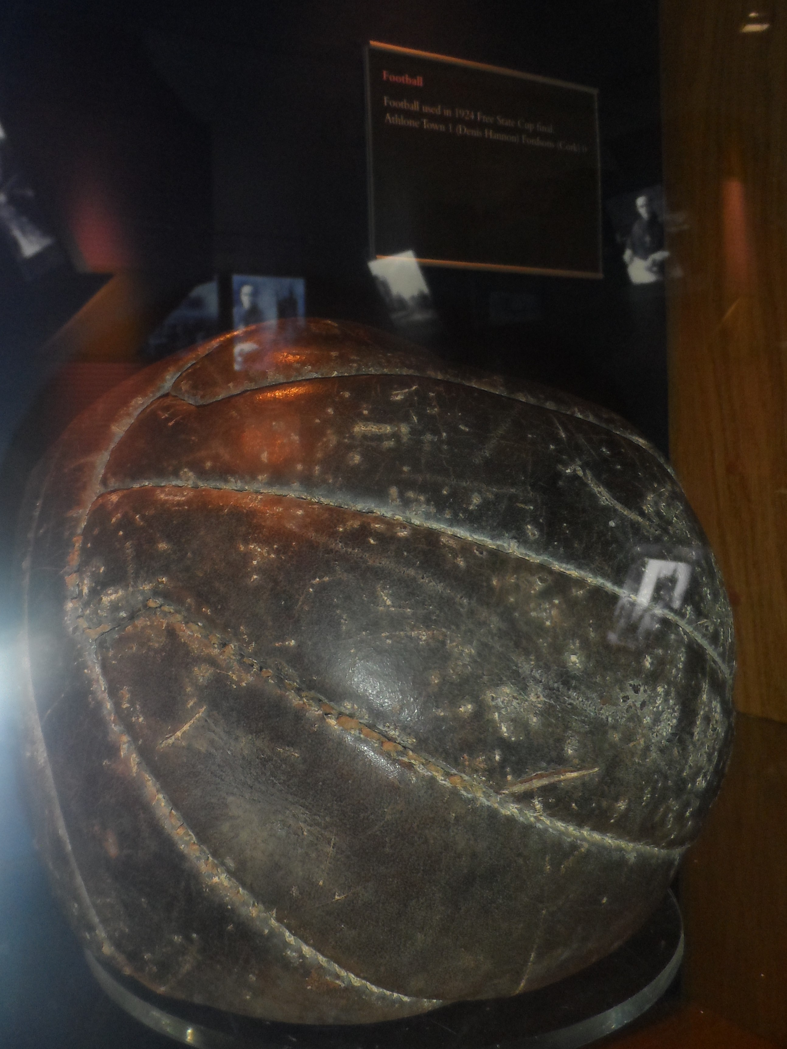 FAI Cup Final ball